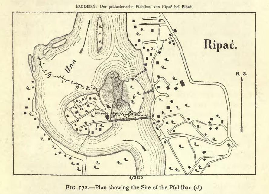 Figure(s): 172